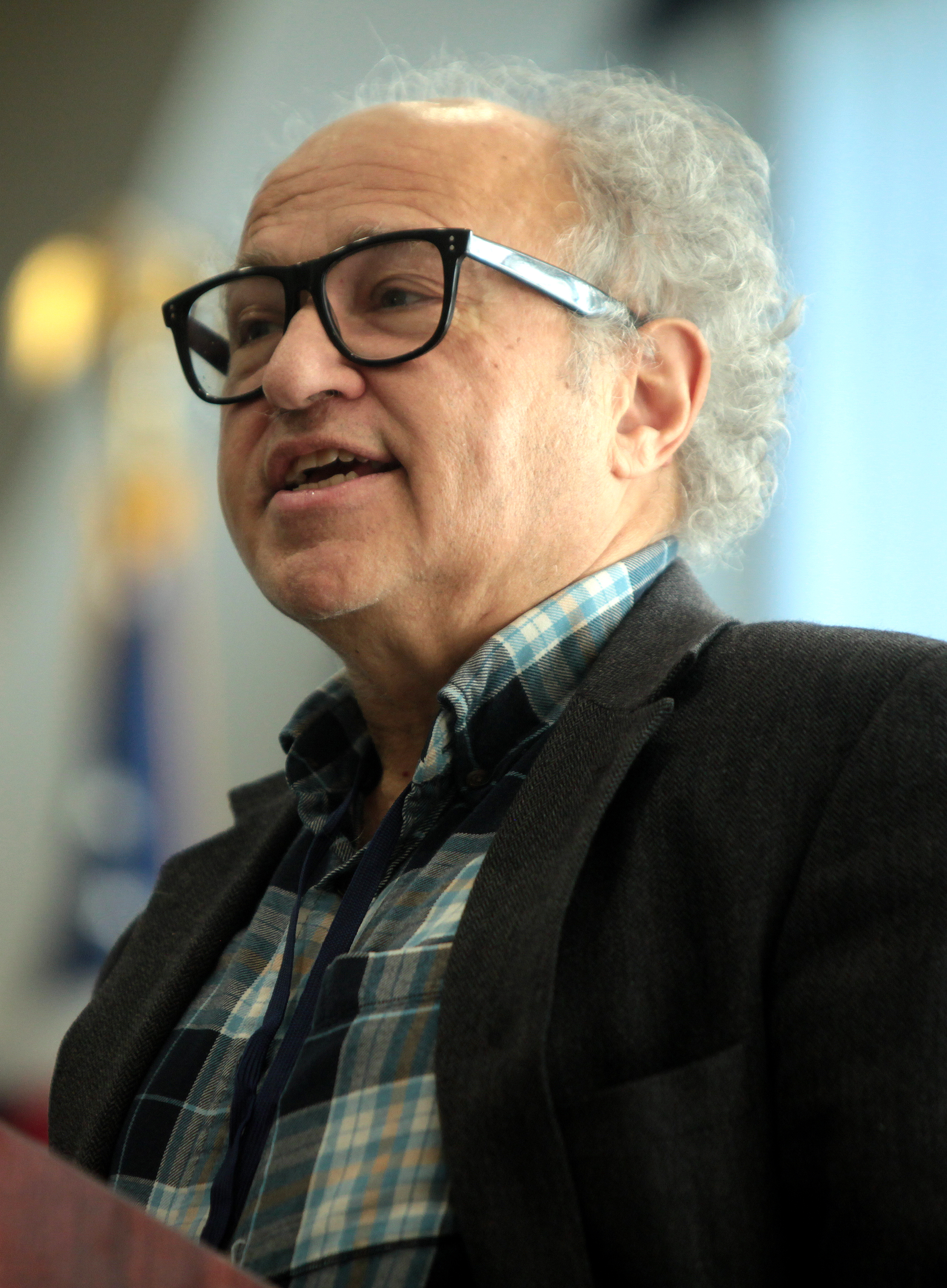 David D. Friedman speaking at an event in Irvine, California.